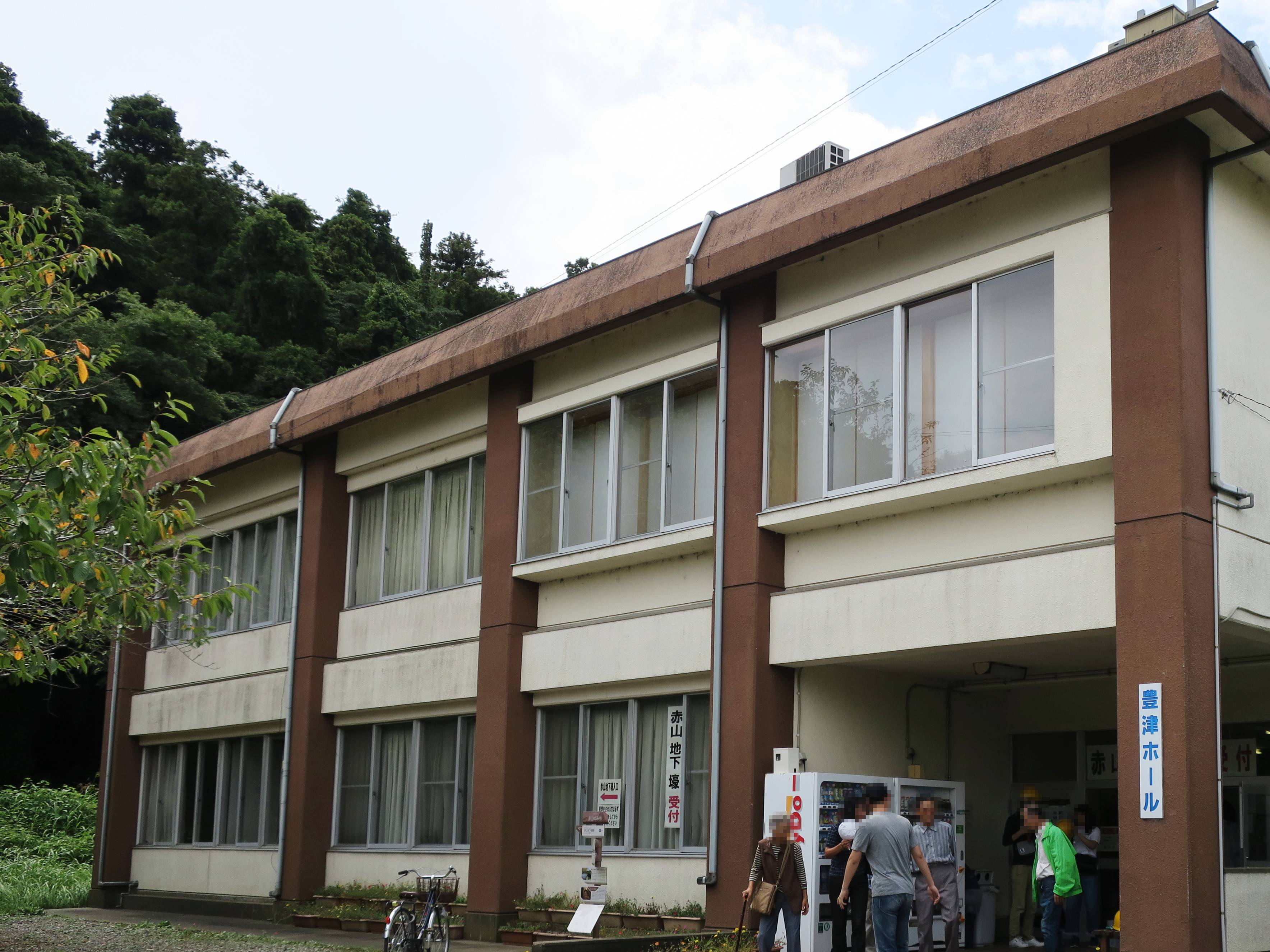 Toyotsu Hall (Tateyama, Chiba).